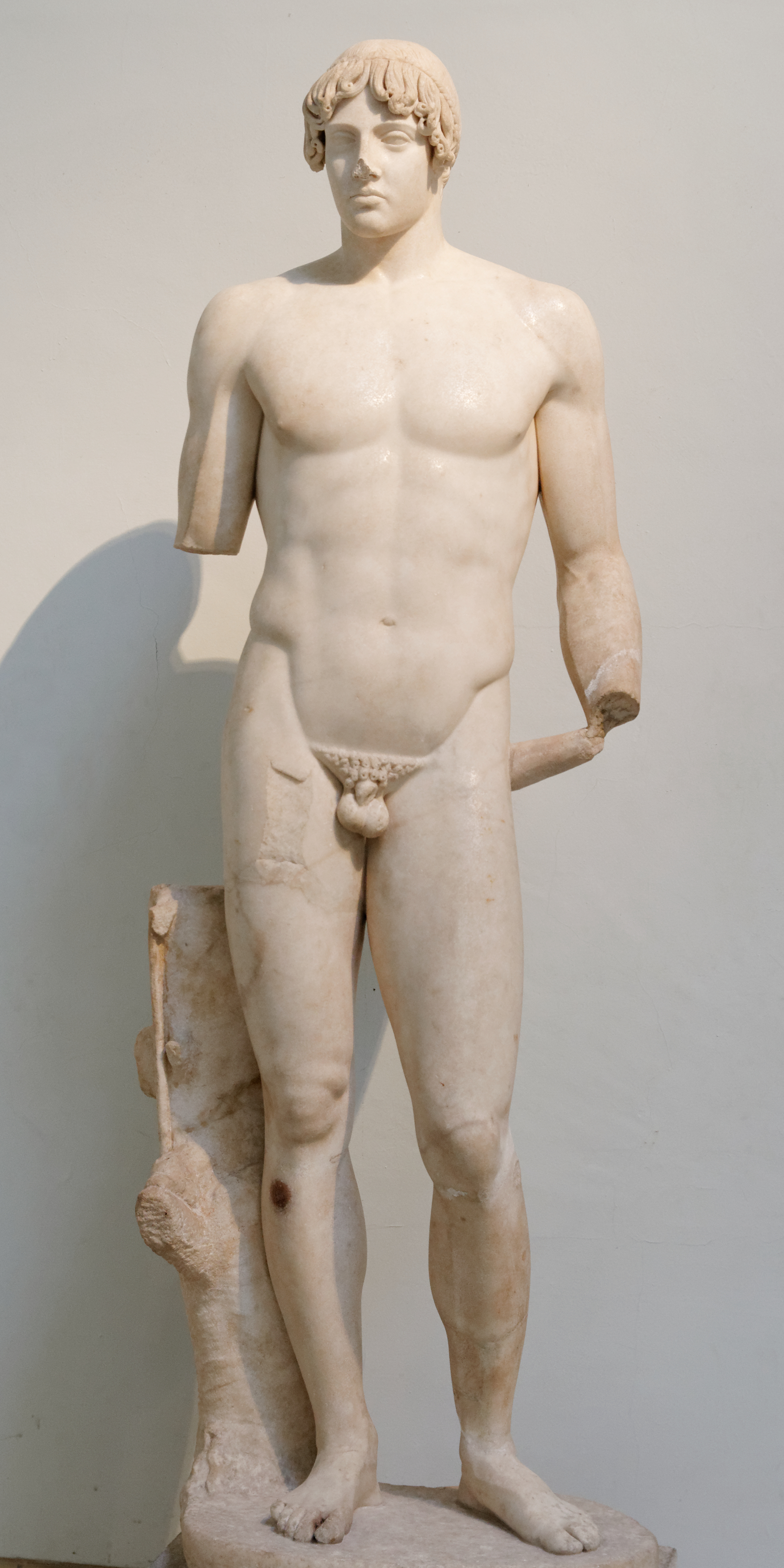 Naked youth: gor or athlete. Roman copy after a Greek Classical original.